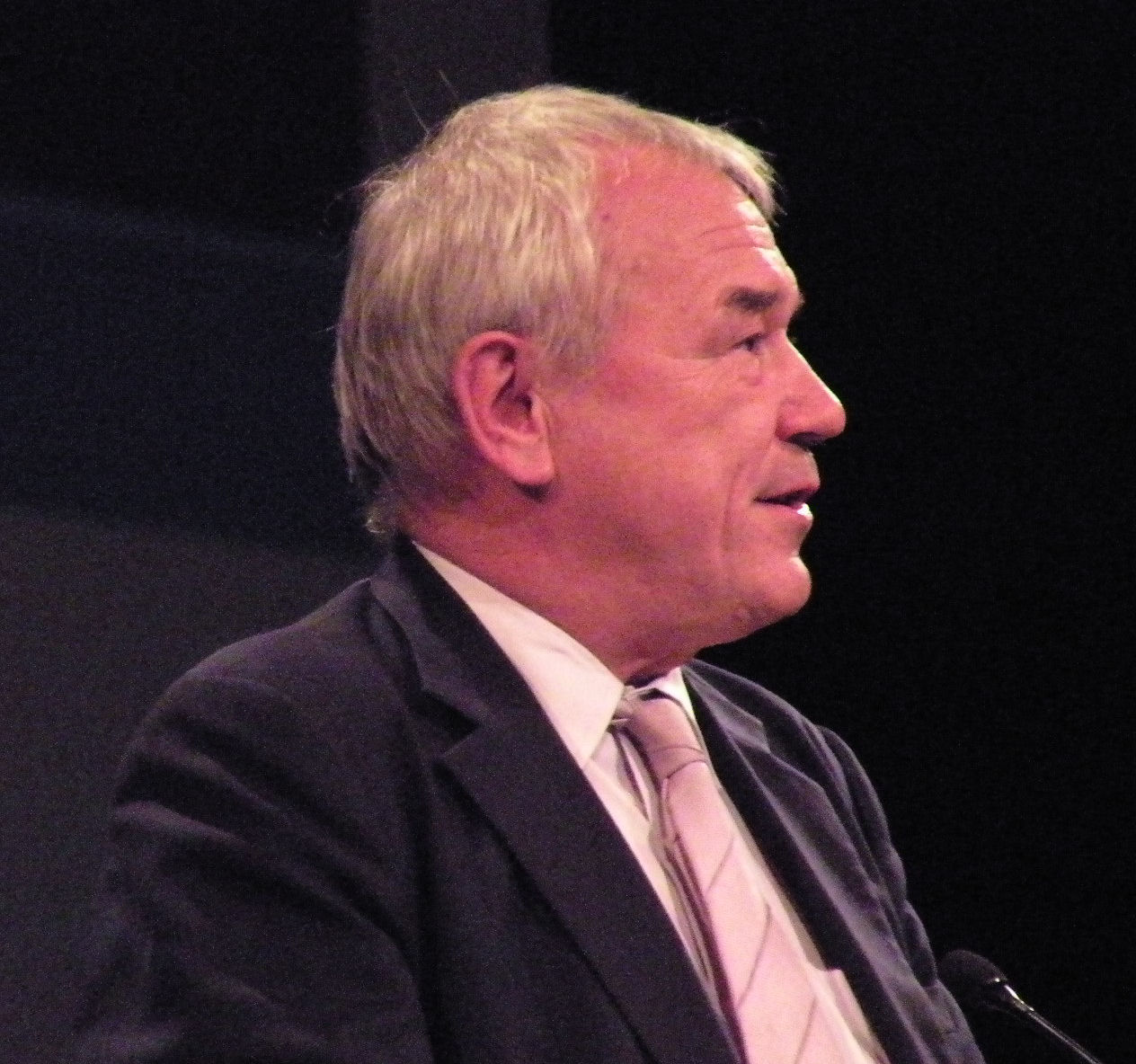 Tim Razzall, Baron Razzall, addressing a Liberal Democrat conference in the Bournemouth International Centre